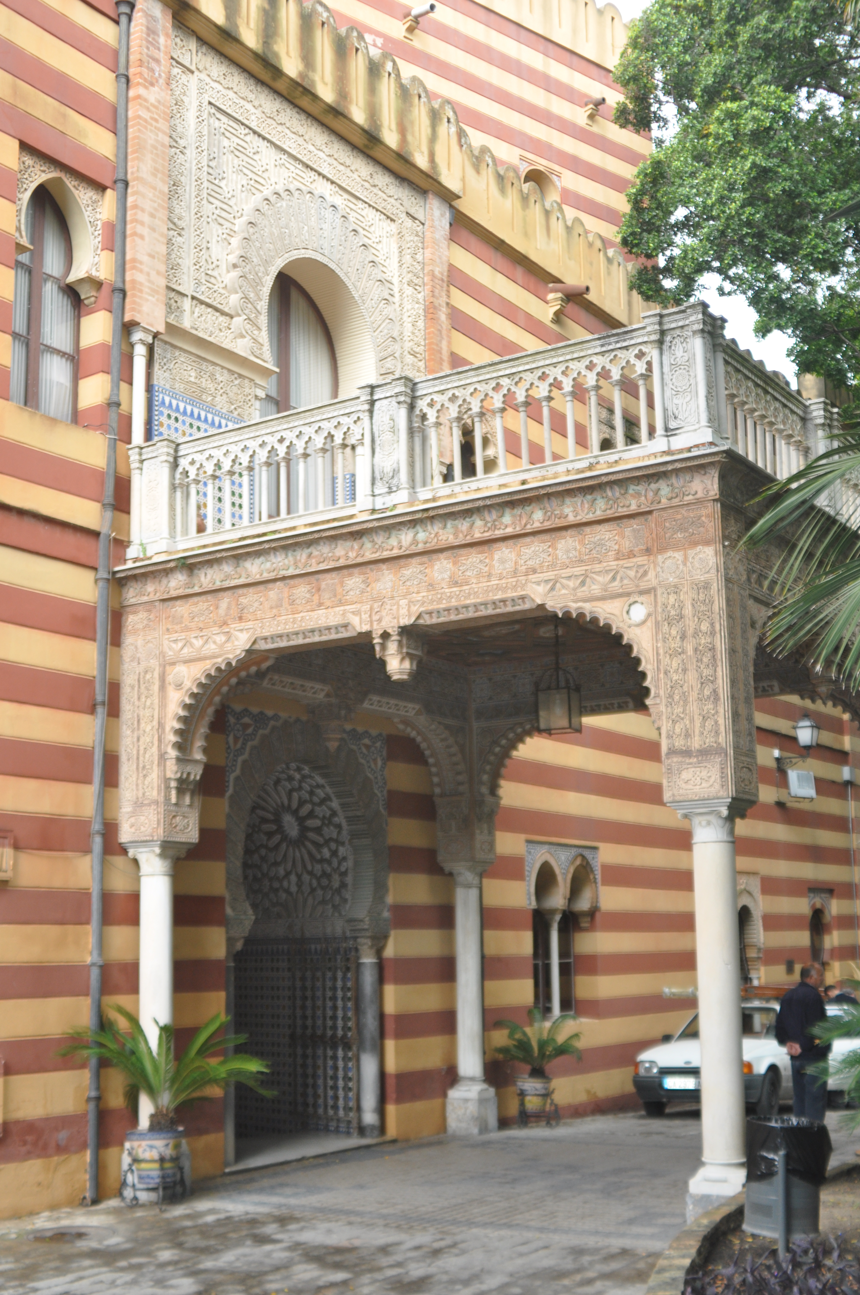 Town hall of Sanlúcar de Barrameda, Cádiz, Spain. Old palace of the Dukes of Montpensier, 19th century.